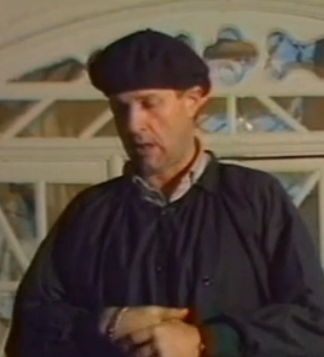 Robèrt Marti as Padena, an Occitan showman